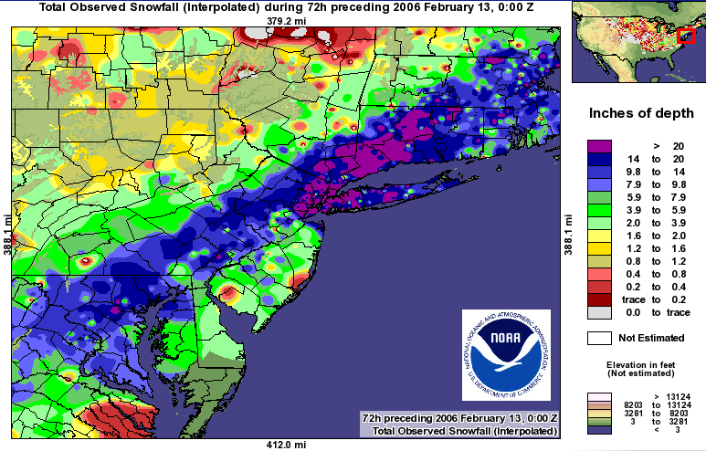 North American blizzard of 2006, snowfall accumulation map. Courtesy of the National Weather Service